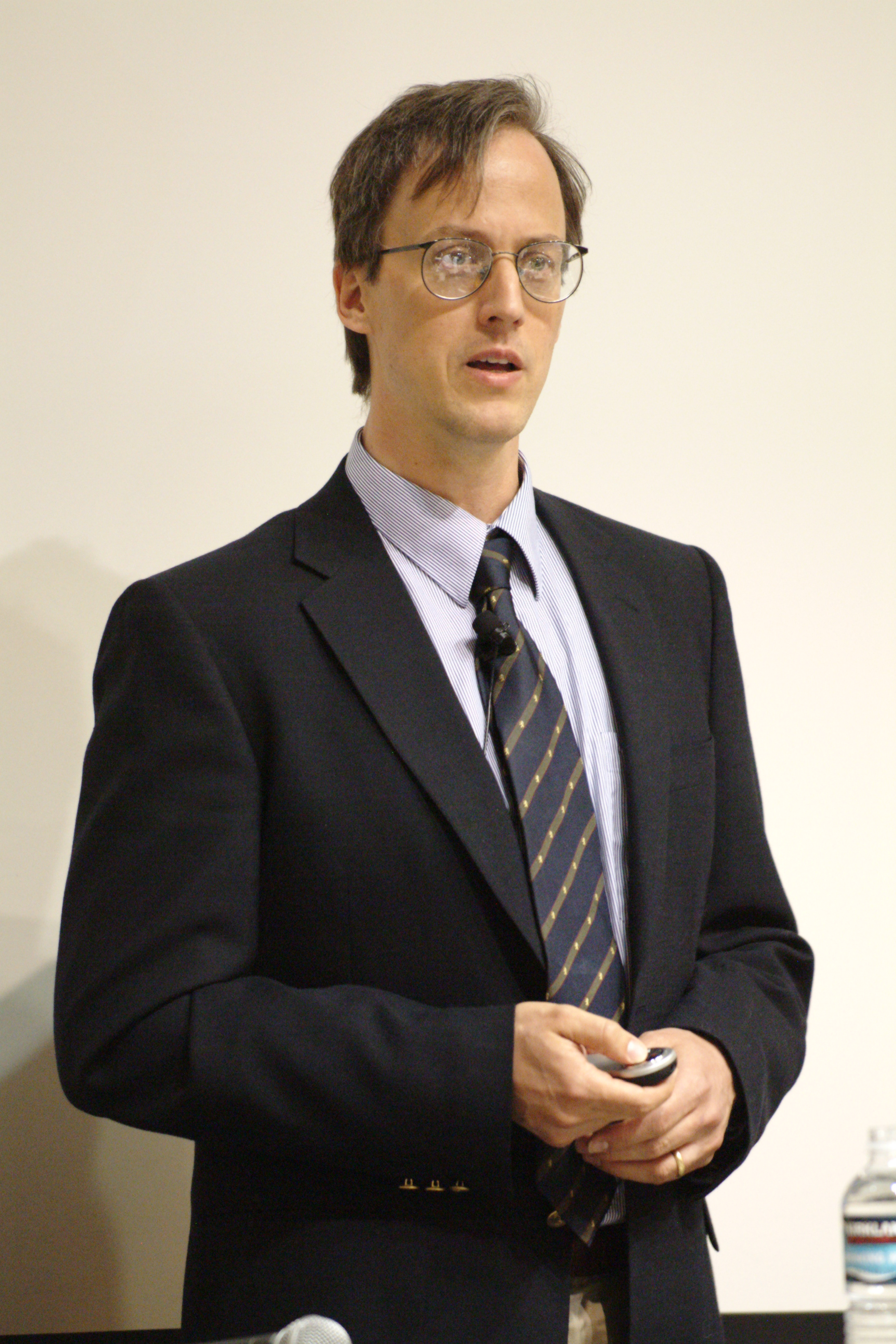 Picture of William Albert Dembski taken at lecture given at University of California at Berkeley, 2006/03/17. Photograph by Wesley R. Elsberry. Fuji S2 camera, Nikkor 70-200mm lens. Released for use with attribution.